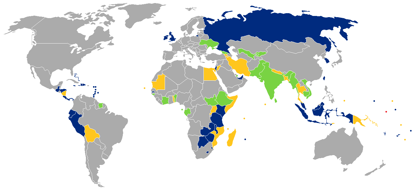 Visa requirements for Nauruan citizens